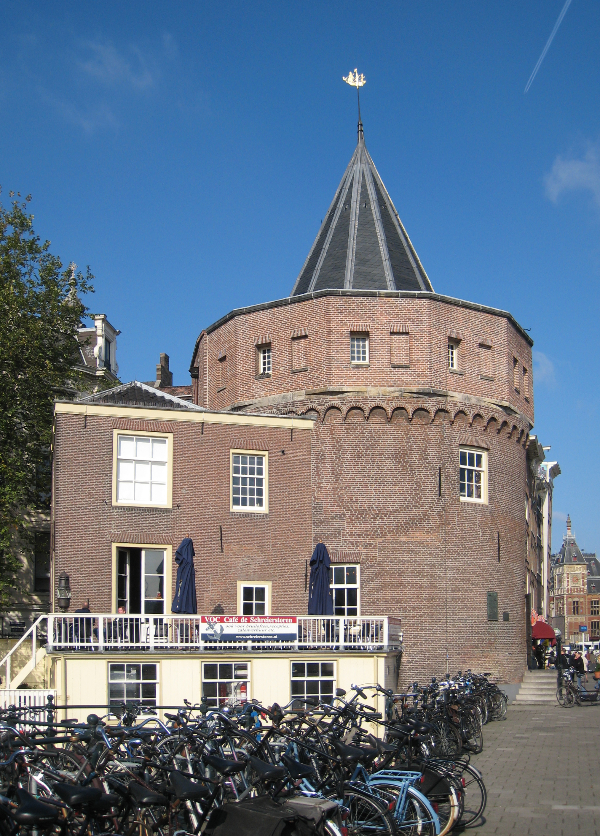 The Schreierstoren is a tower in the city centre of Amsterdam. It was built as a defense tower in 15th century. It is currently a café.